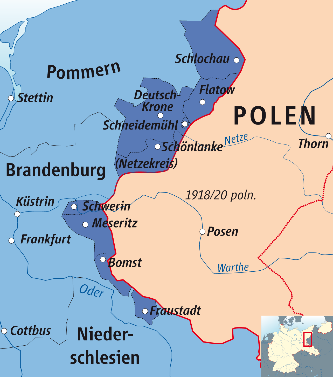 Posen-West Prussia (1922–1938)